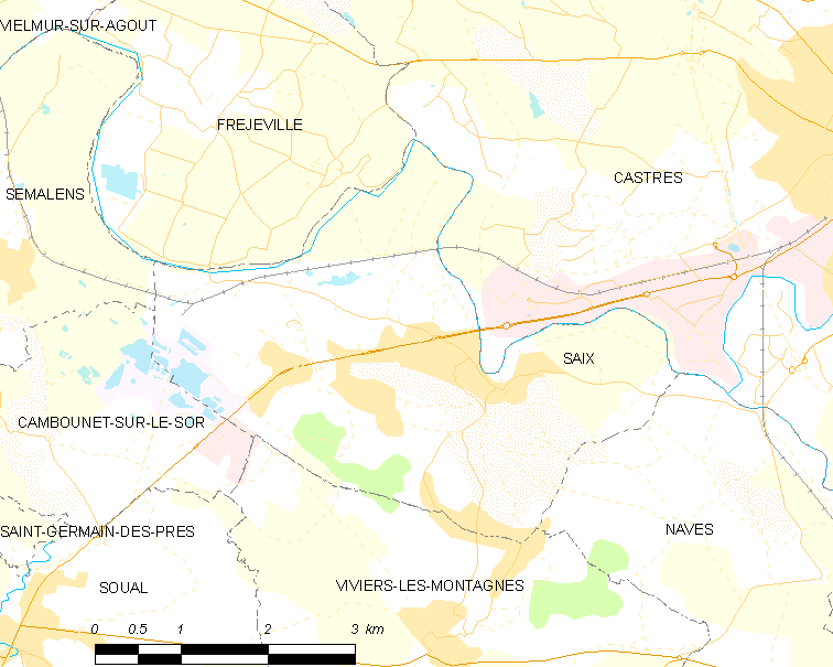 Map of French municipality Saïx